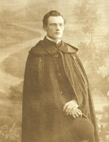 Vincas Mykolaitis-Putinas (1893-1967), lithuanian writer